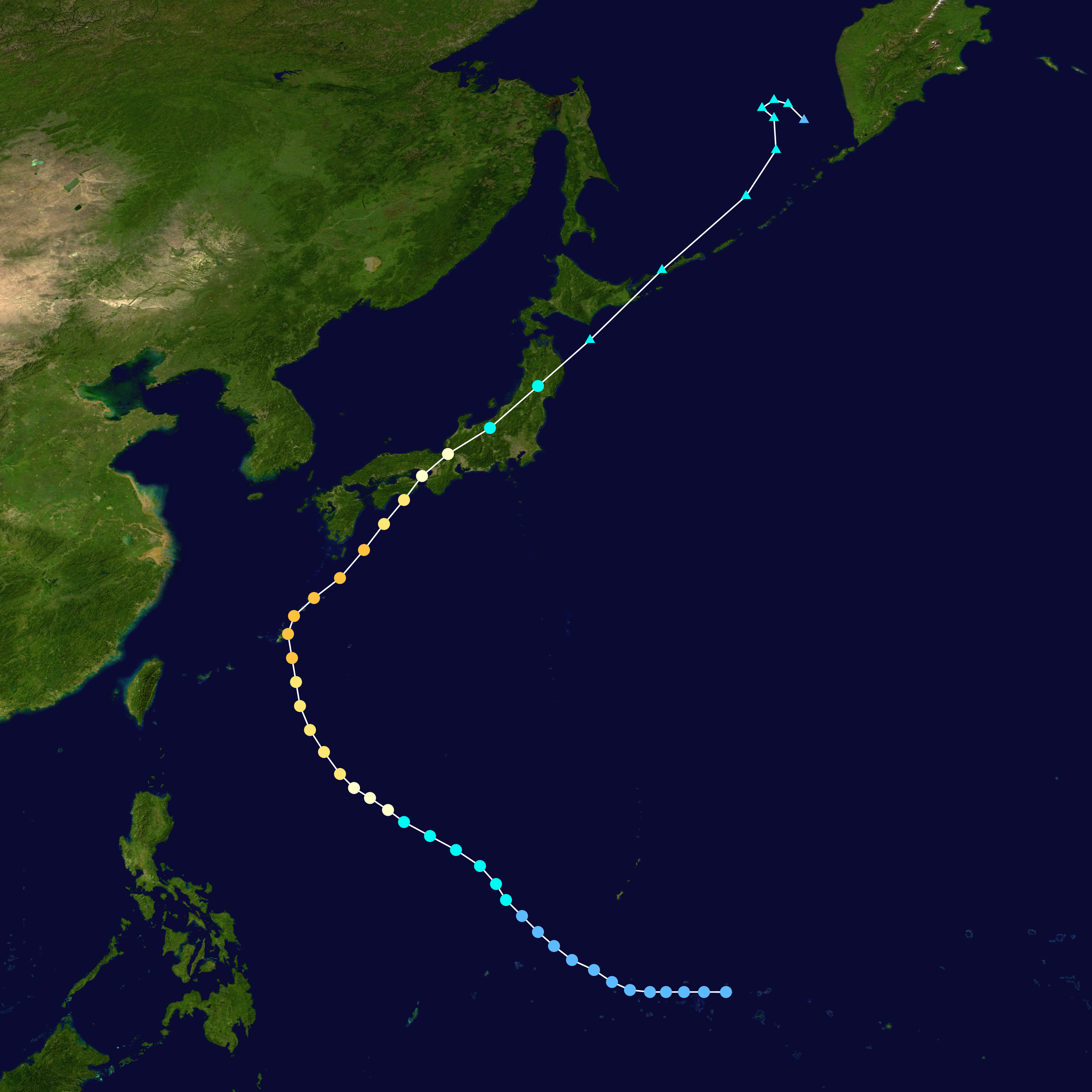 Typhoon Etau 2003 track. Uses the color scheme from the Saffir-Simpson Hurricane Scale.